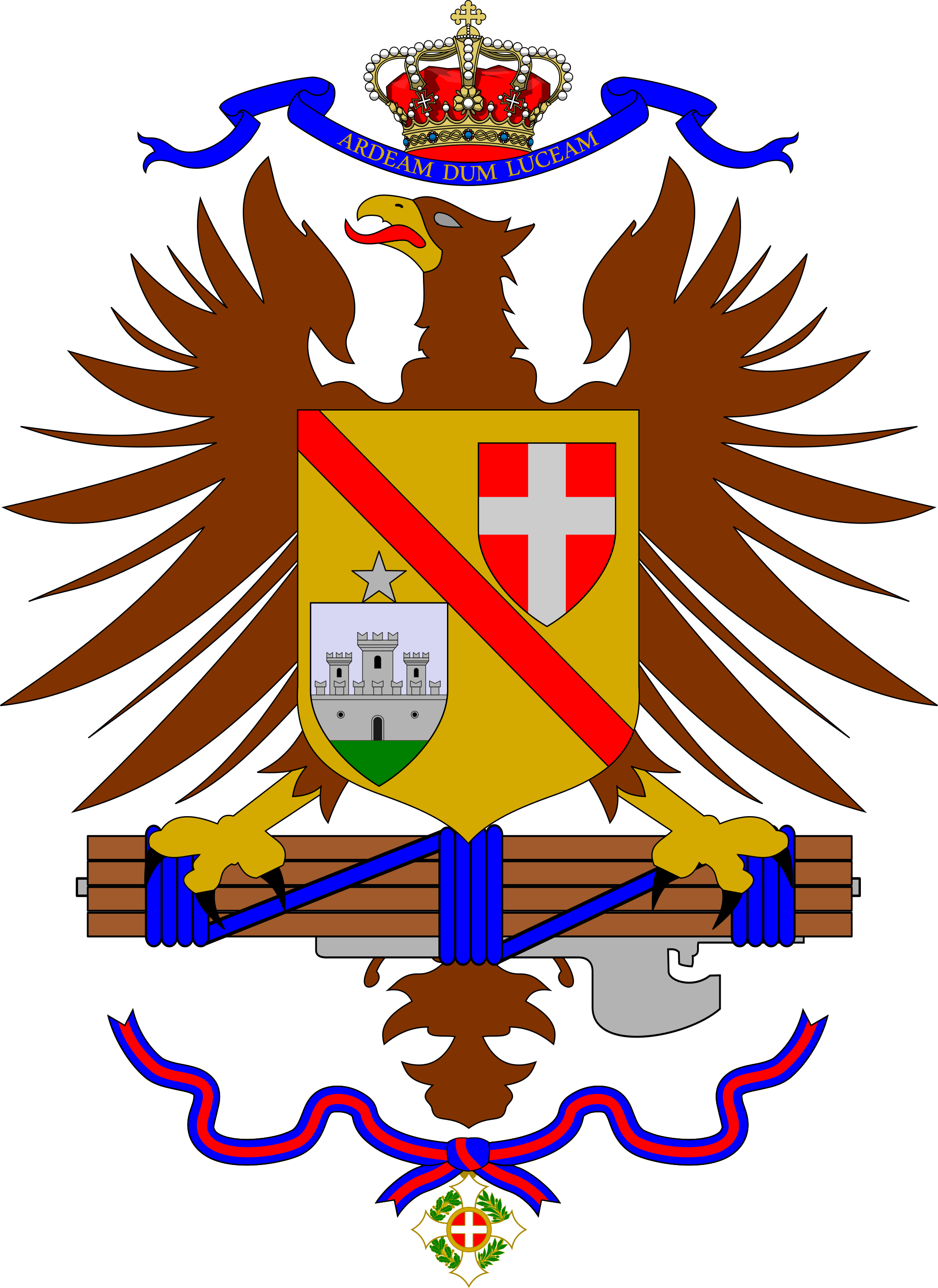 Coat of Arms of the 27th Infantry Regiment "Pavia", Royal Italian Army, 1939